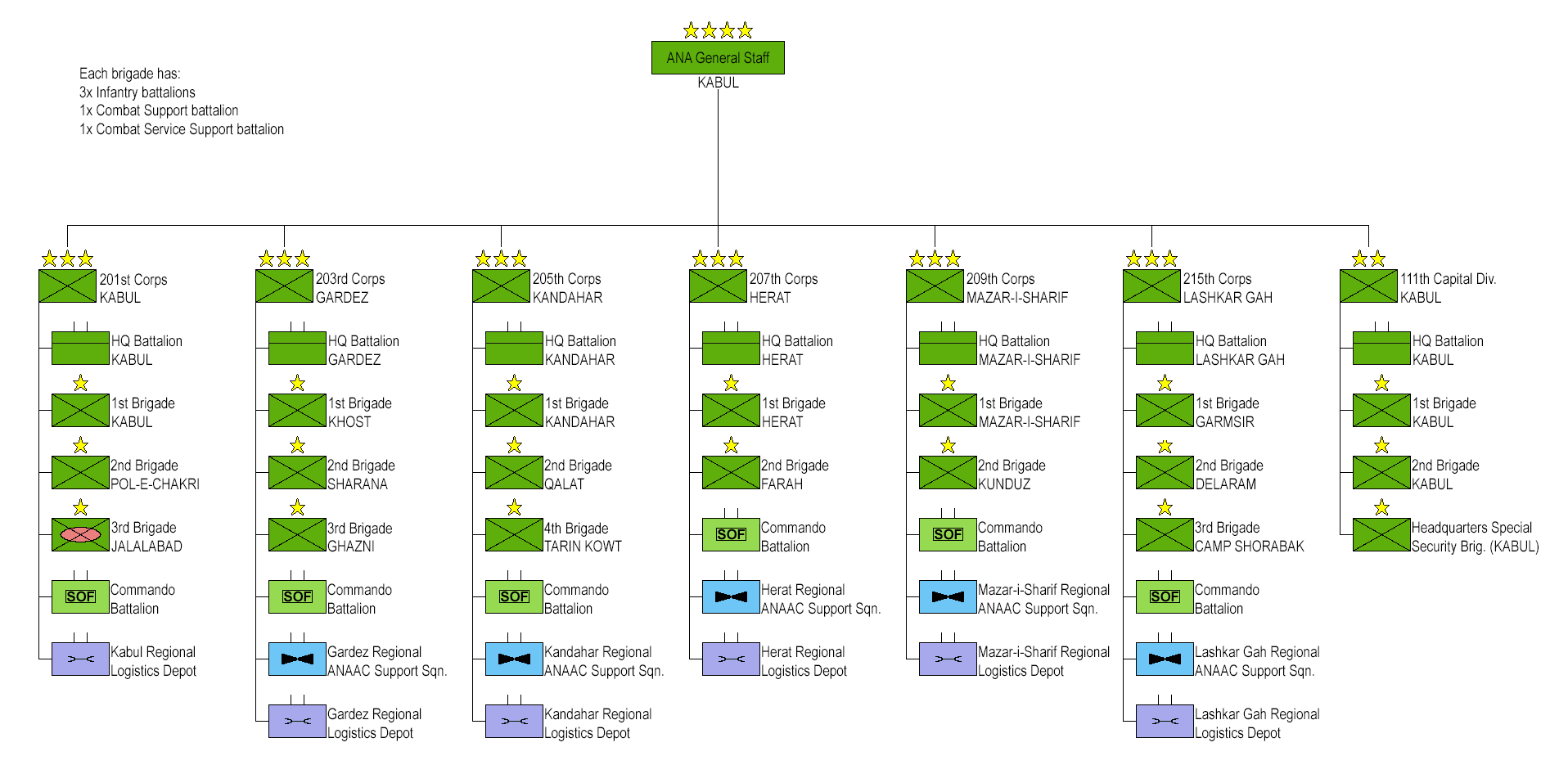 Afghan National Army OrBat - provisional graphic - dispositions and unit assignments subject to change at any time